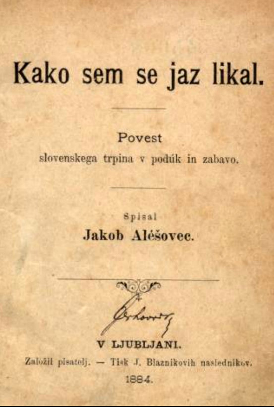 Alešovec: Kako sem se jaz likal (1884)